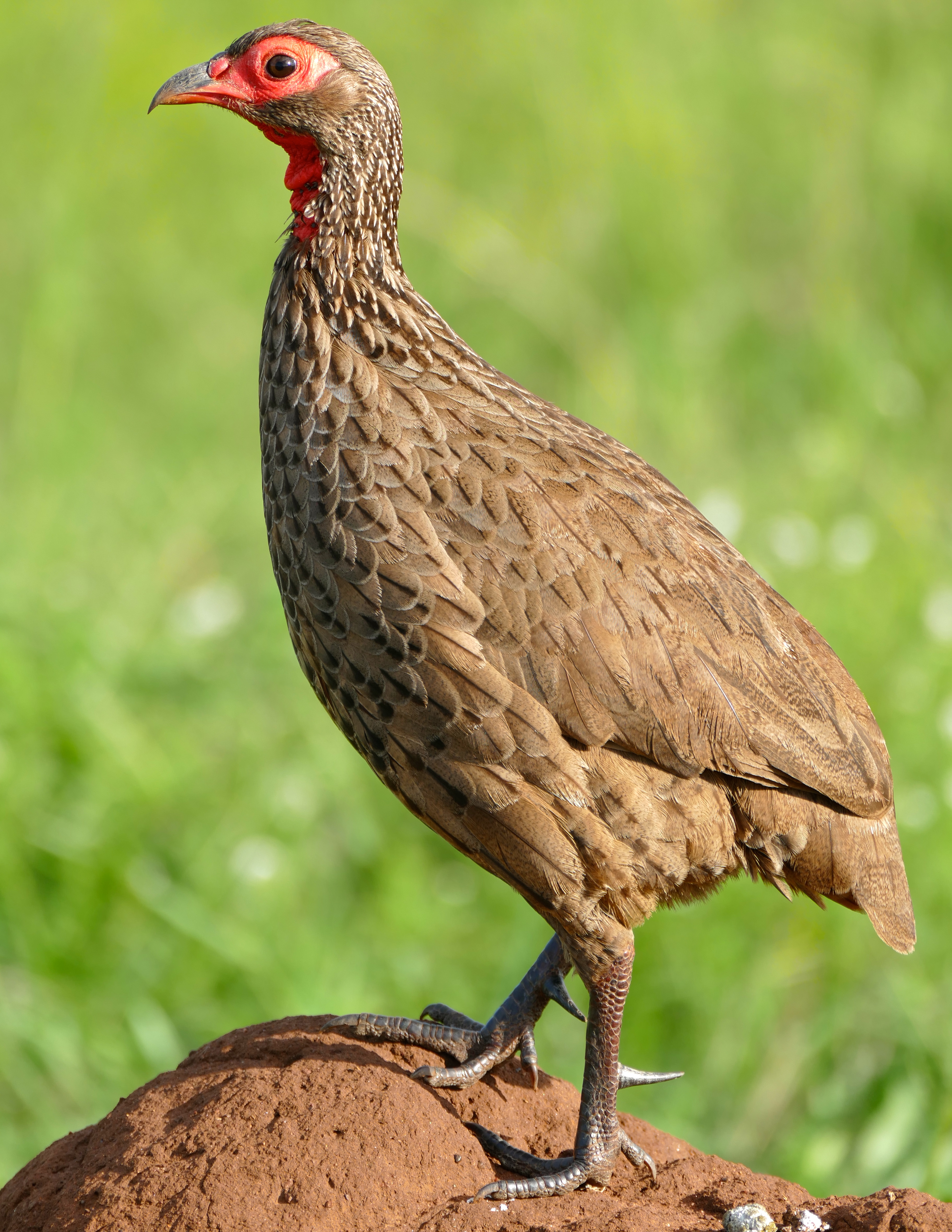 S28 Road South of Lower Sabie, Kruger NP, SOUTH AFRICA